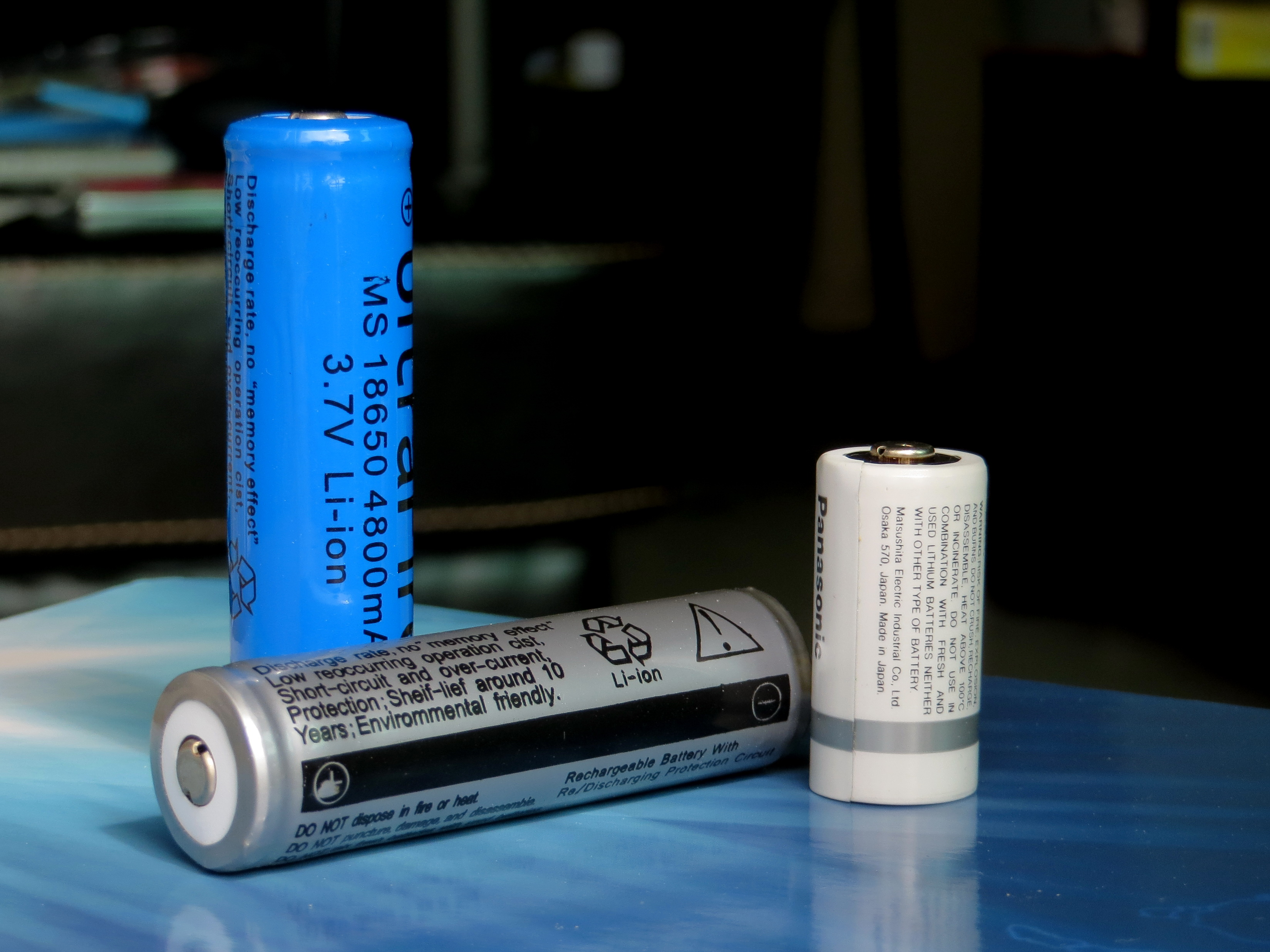 Two 18650 lithium-ion batteries (left) and a Panasonic CR123A battery (right)